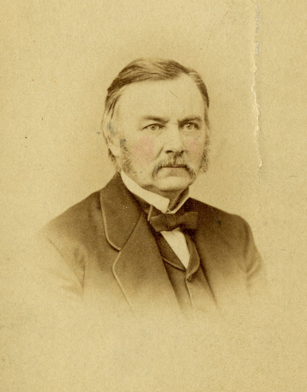 Cropped. Joseph Carson (1806-1876), A.B. 1826, M.D. 1830, hand-tinted portrait photograph